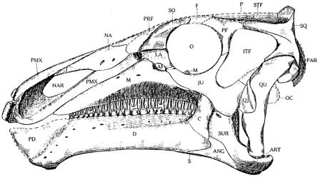 Mantellisaurus (Iguanodon) atherfieldensis, from Hooley's original description, which was published posthumously.